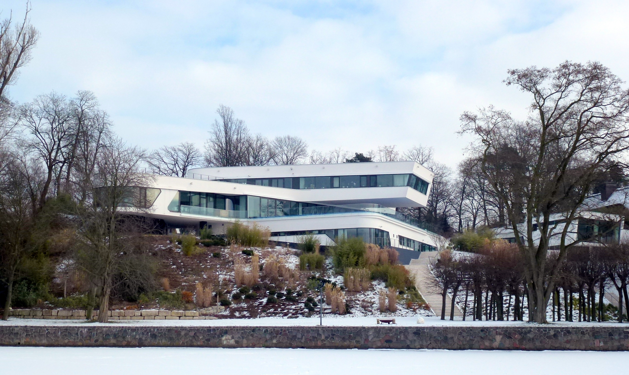 Berlin-Nikolassee Schwanenwerder Villa